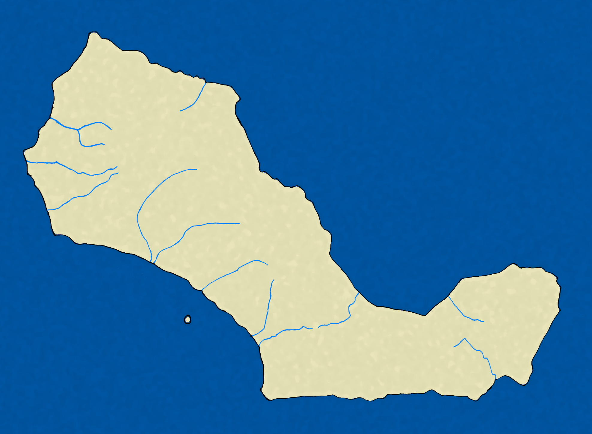 Map showing the streams of Santa Luzia island, Cape Verde